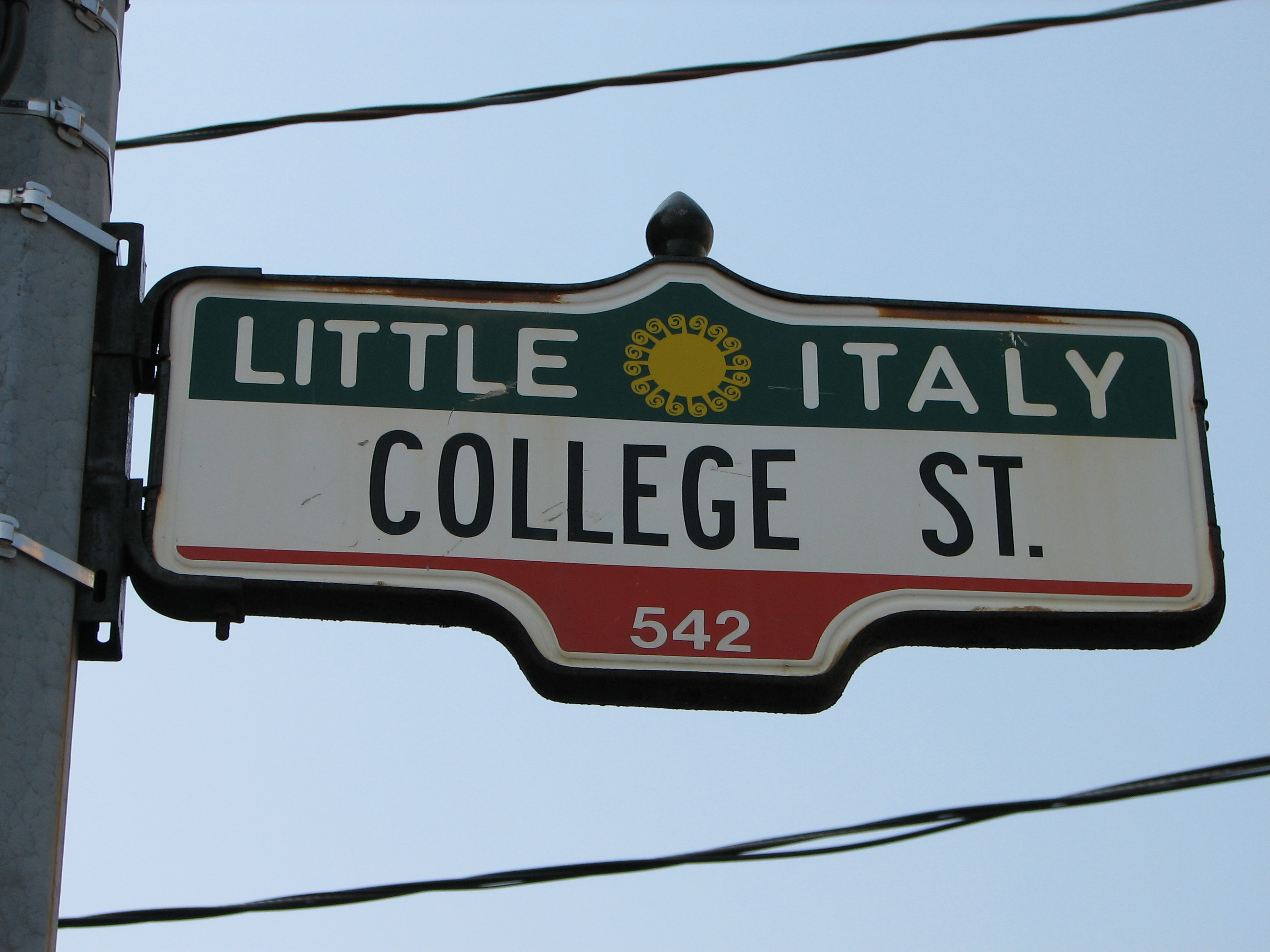 Photograph of a College Street sign in the Little Italy district of Toronto, Canada.